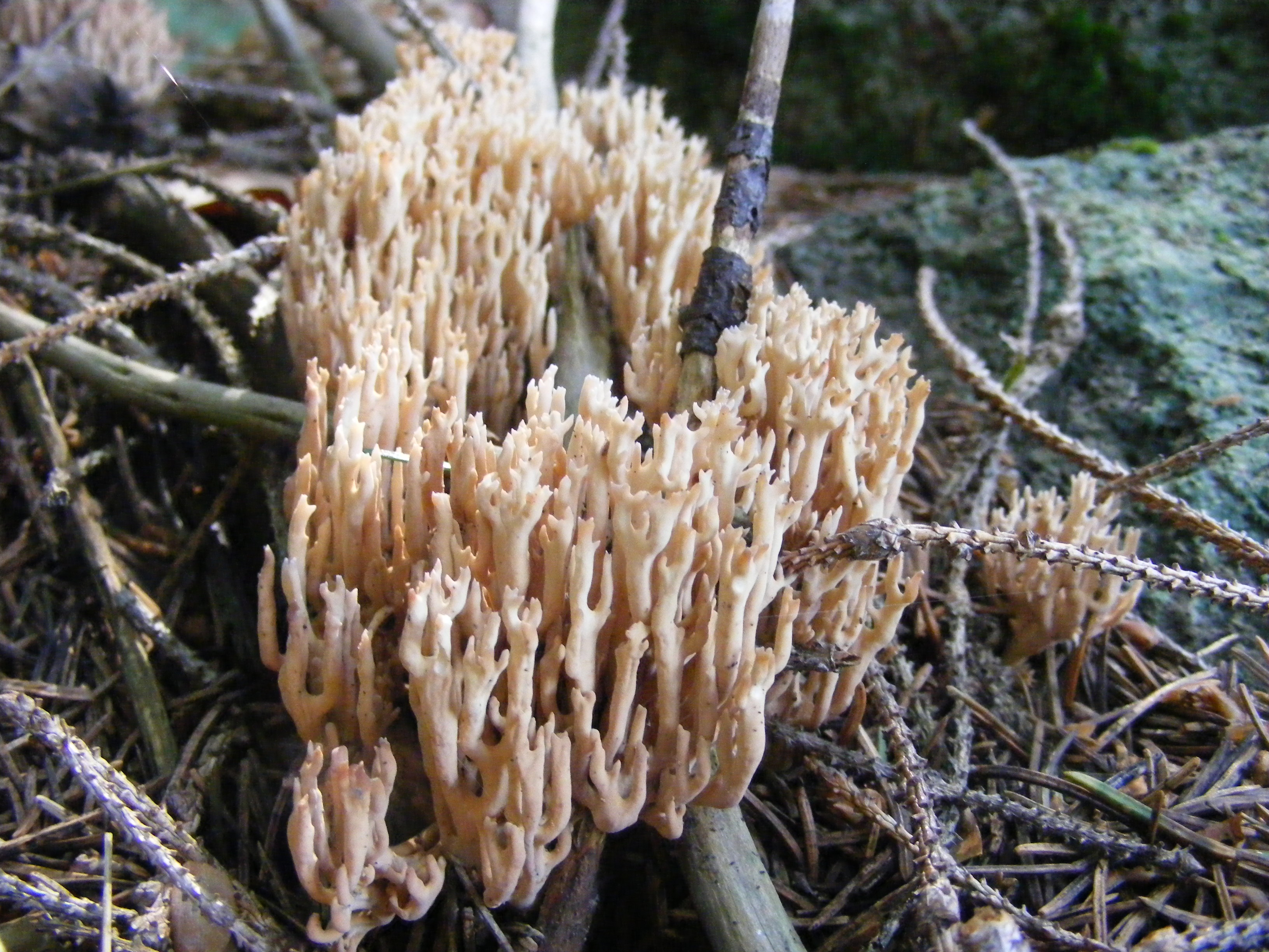 Ramaria formosa